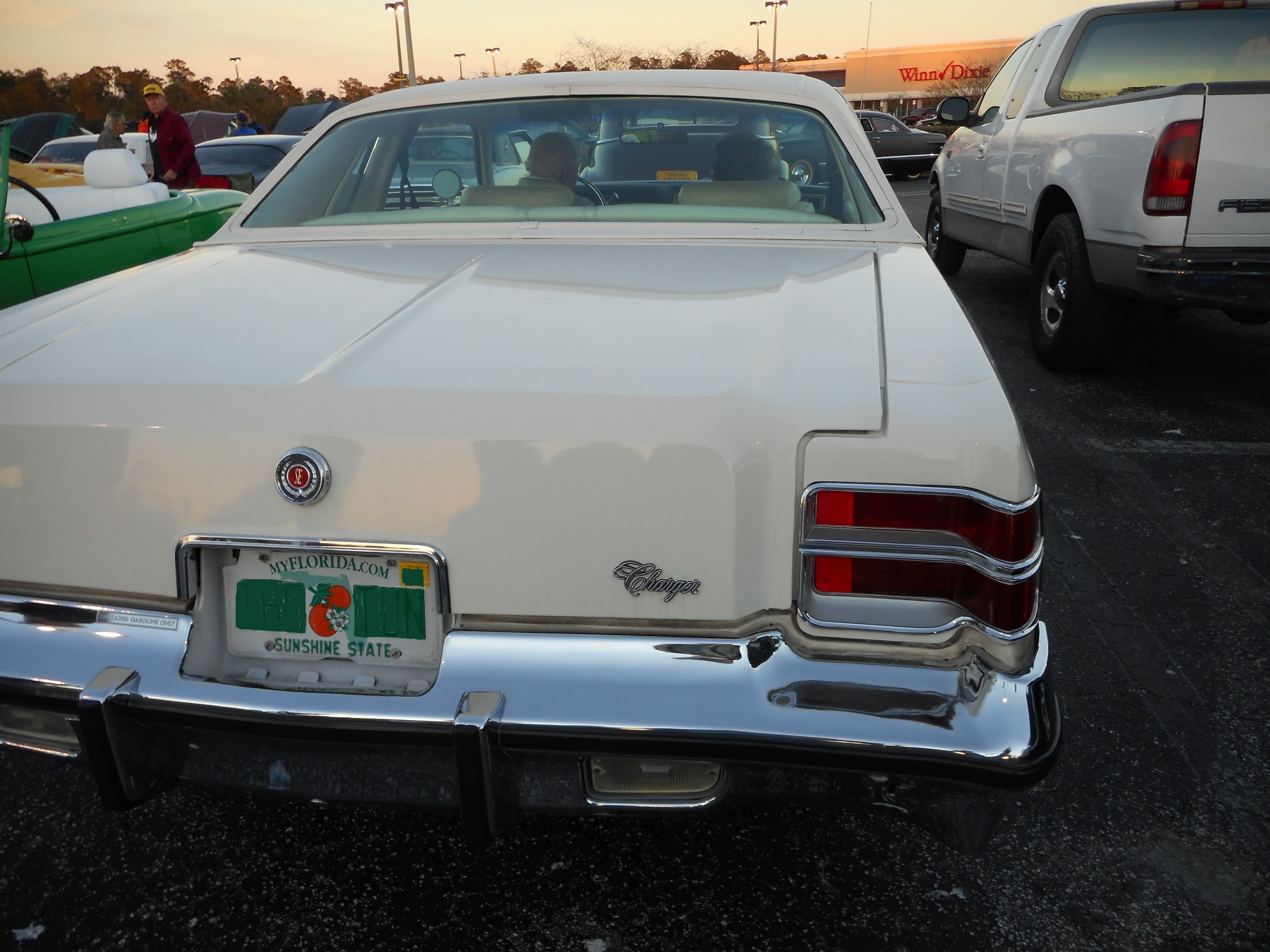 A rare 1976 Dodge Charger SE Coupe at a car show in Weeki Wachee, Florida. Delayed so I could cover up the license plate.